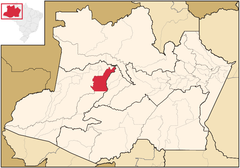 Map of Amazonas highlighting Juruá.